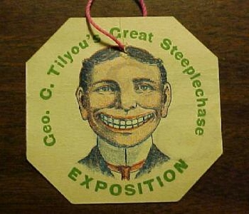 Ticket for a Steeplechase ride. Date: 1905. Steeplechase Park, Coney Island, New York.